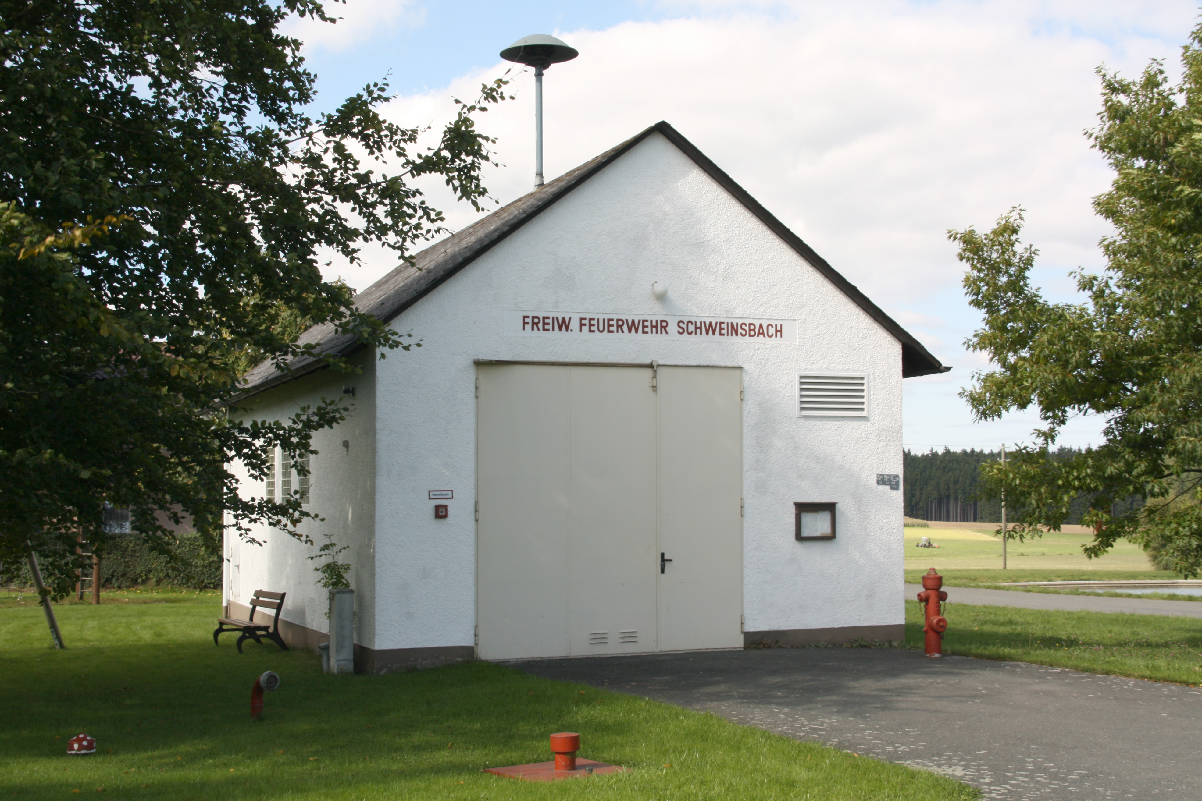 House of the fire department Schweinsbach